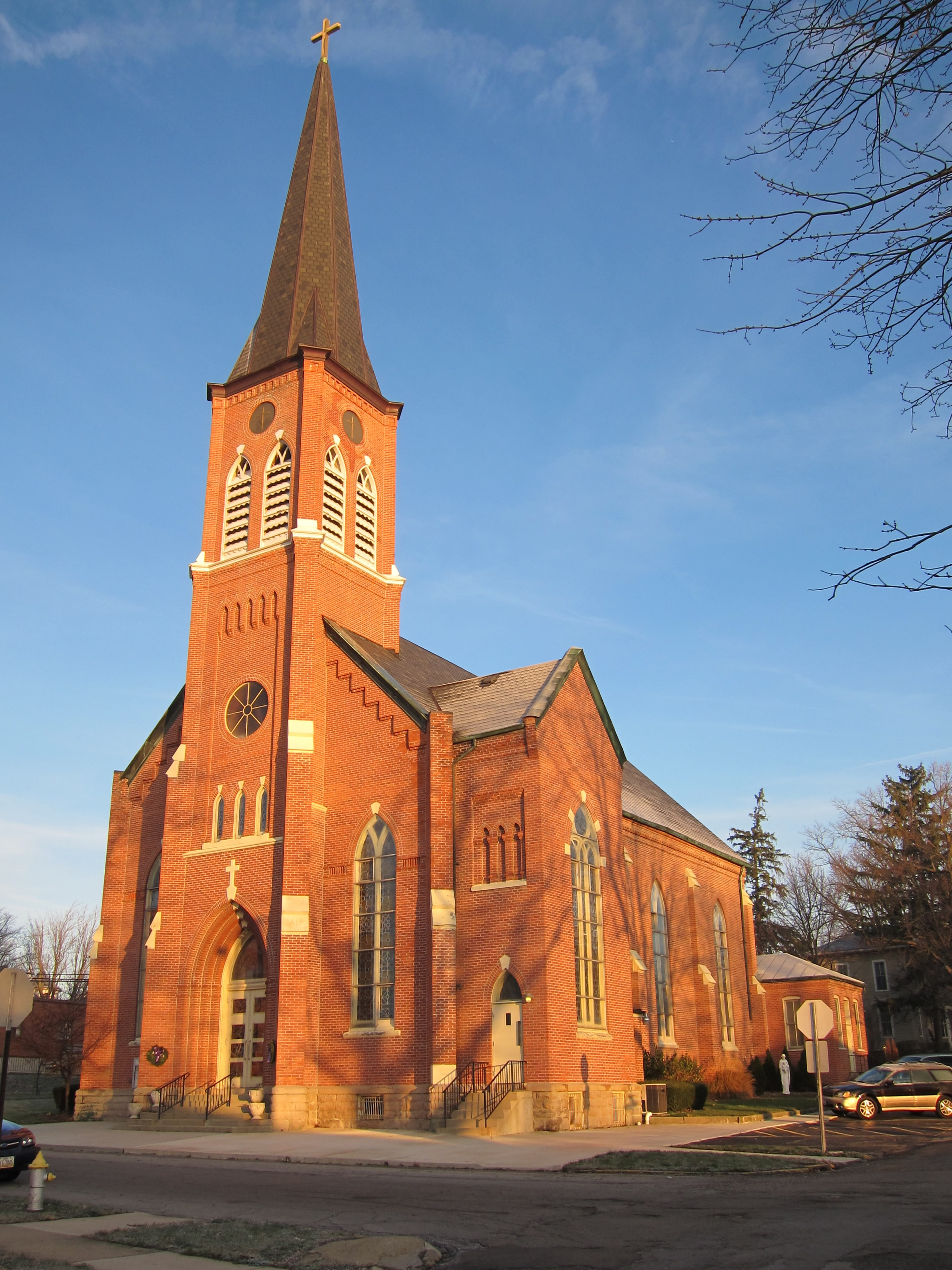 Immaculate Conception Catholic Church in Kenton, Ohio; building exterior